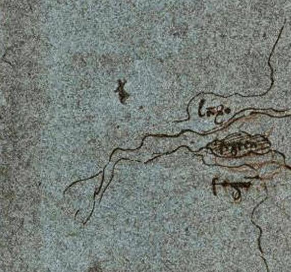 Leonardo da Vinci, Atlantic Code, fasc. xxiv, tav. dccccxxiv (fol. 275ro), Canzo and Lake Segrino (mirrored)